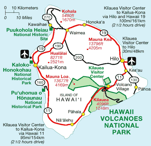 Map of National Park Service facilities on the Big island of Hawaiʻi.